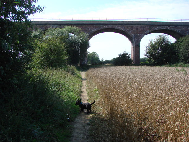 Footpath under the Railway Viaduct.